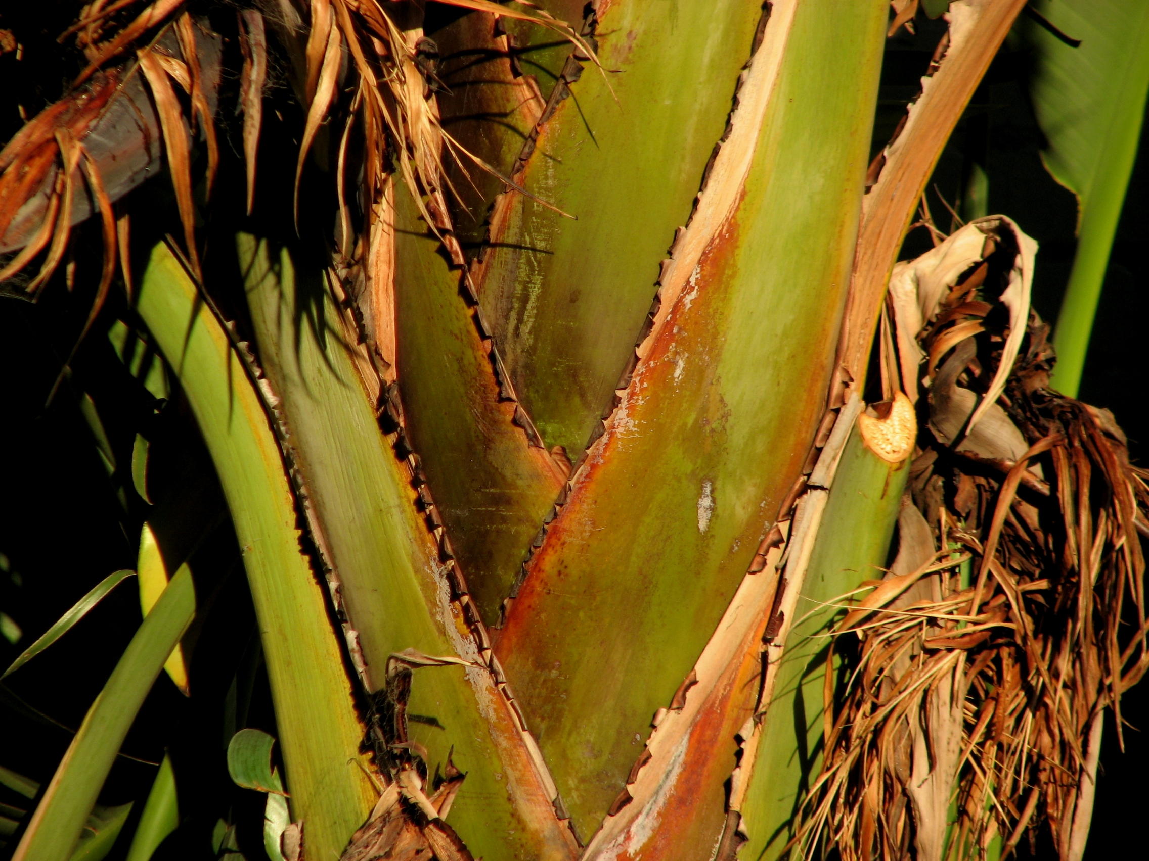 Strelitzia nicolai (cultivated), Kew, Victoria, Australia